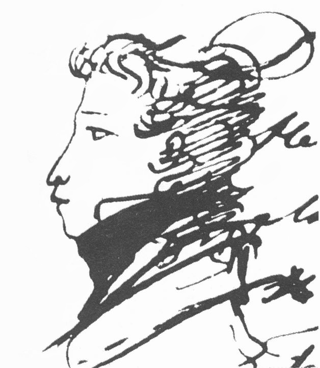 Russian poet Alexander Pushkin (1799-1837)